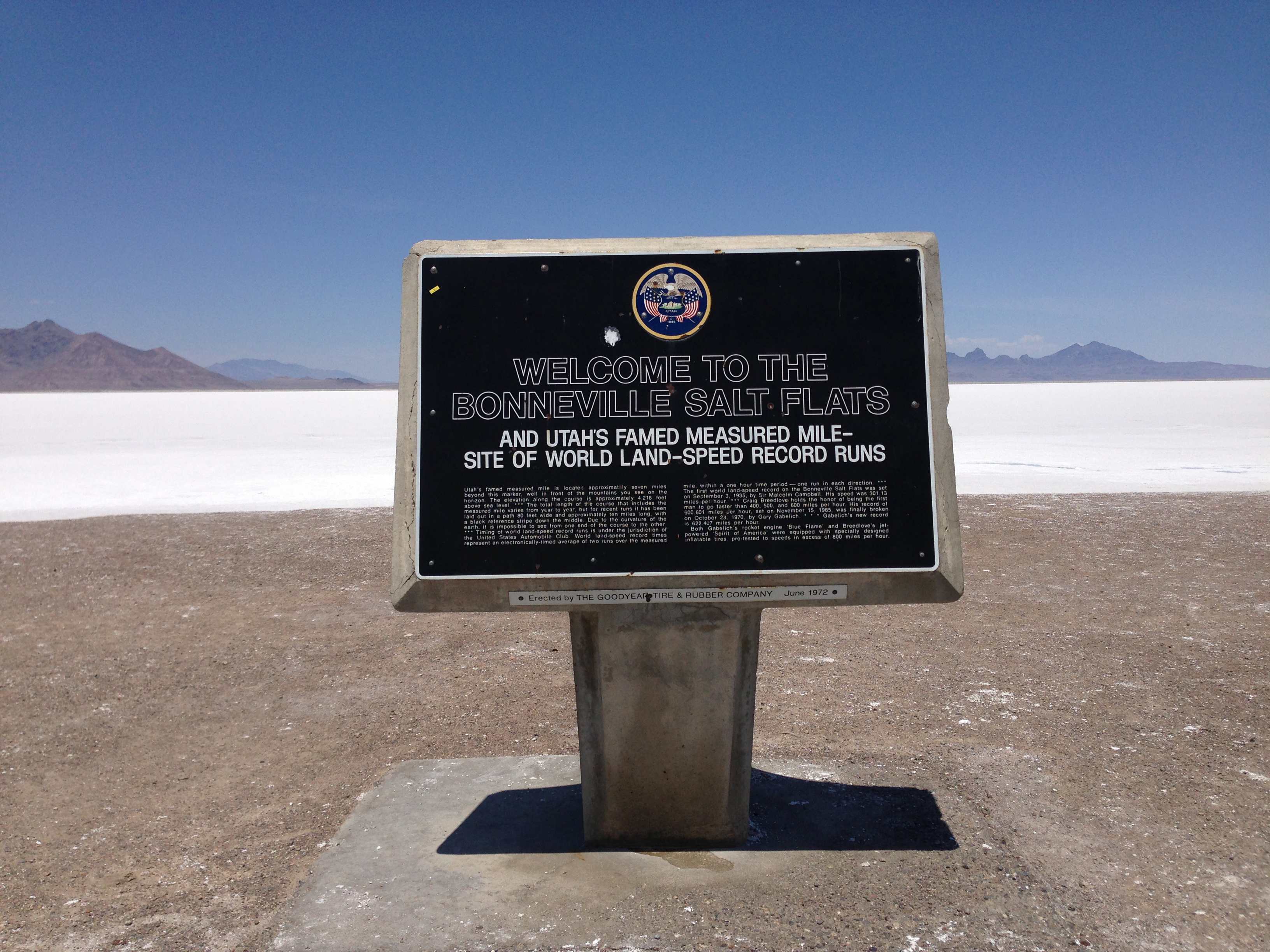 Sign describing the Bonneville Salt Flats at the Bonneville Salt Flats Rest Area on Interstate 80 near the Bonneville Salt Flats, Utah